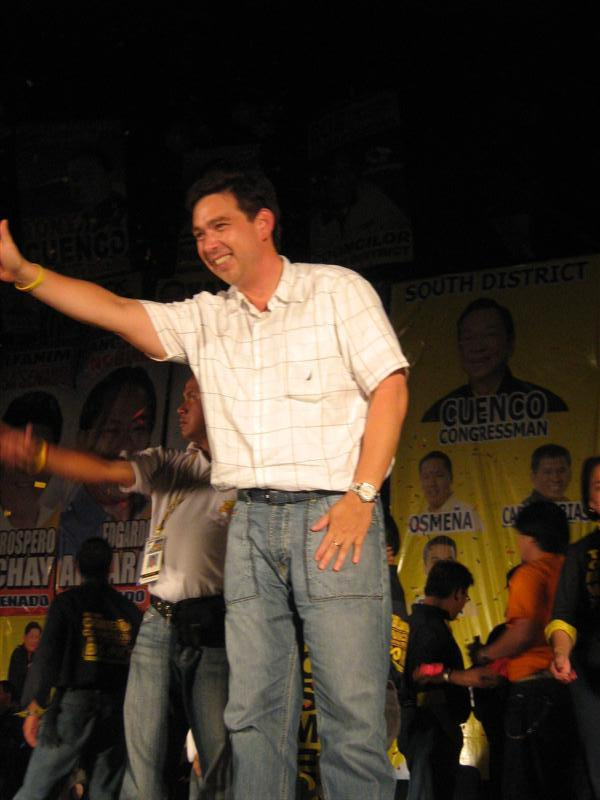 Ralph Recto at a political rally in Cebu City